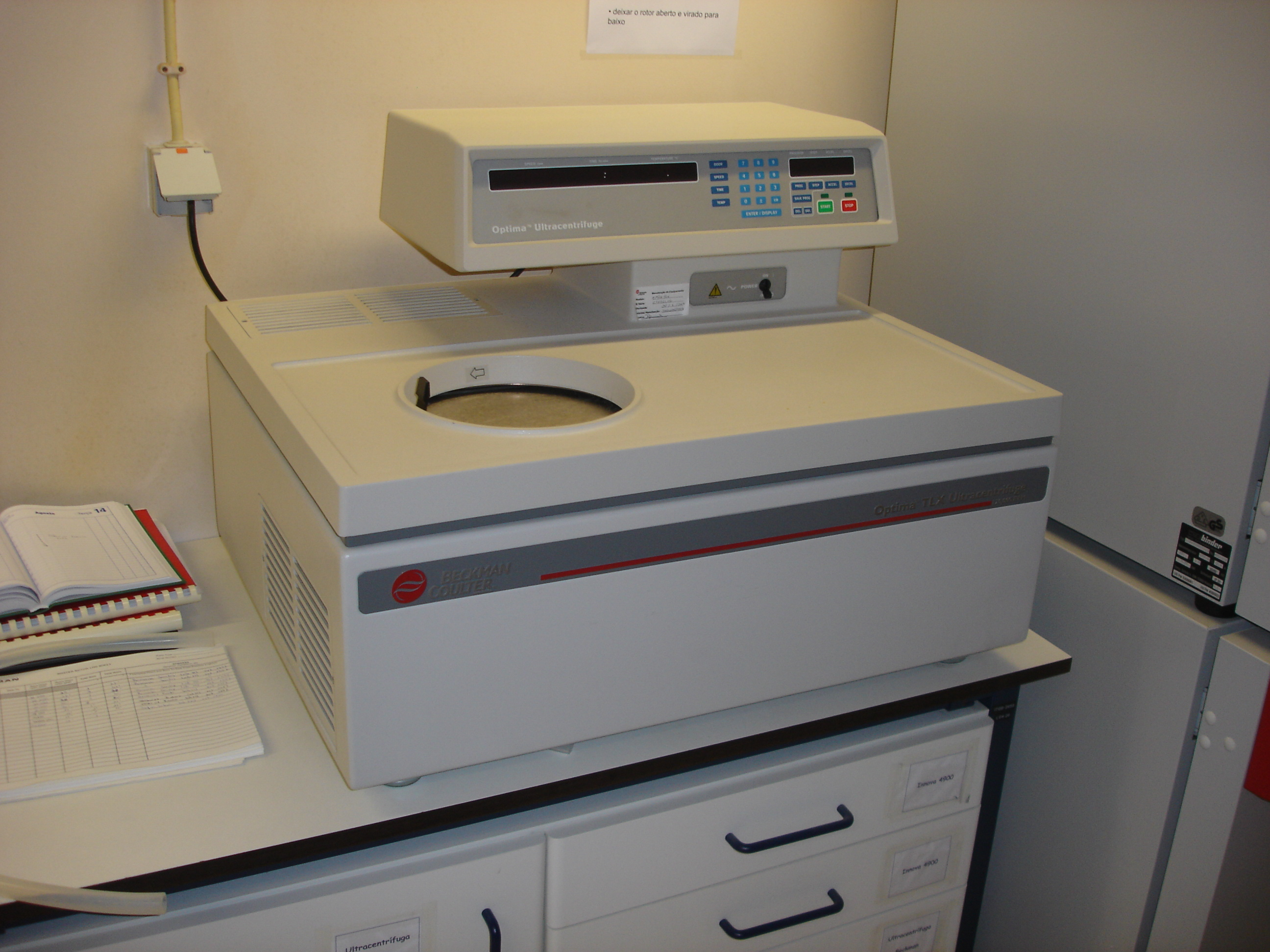 Laboratory ultracentrifuge. Beckman Optima TLX.